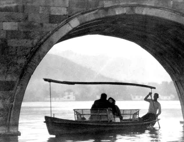 West Lake, Hangzhou